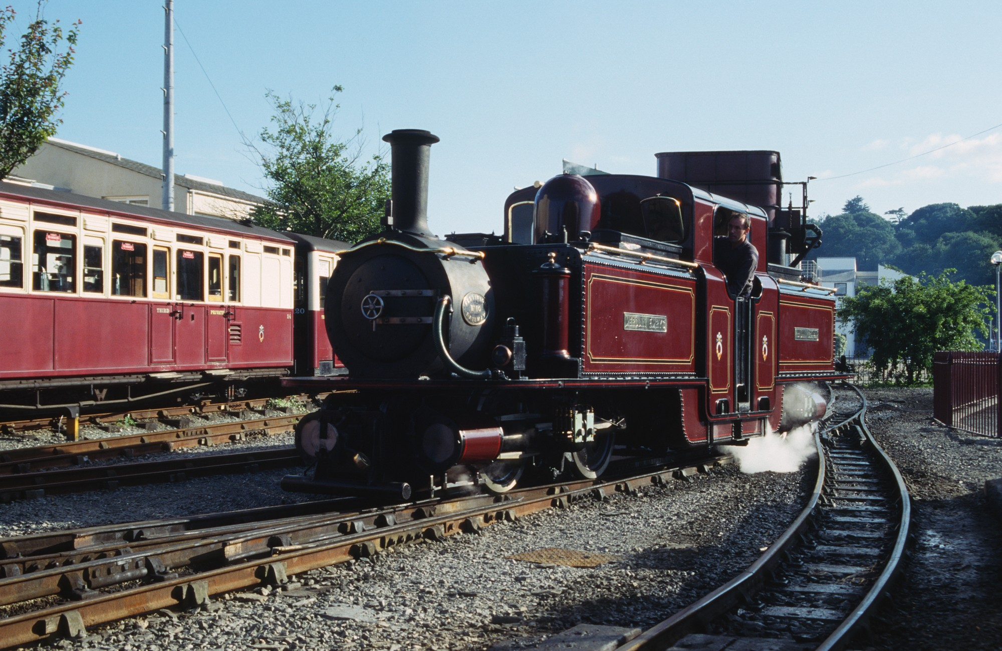 Double Fairlie "Merddin Emrys" shunting at Porthmadog harbour station.